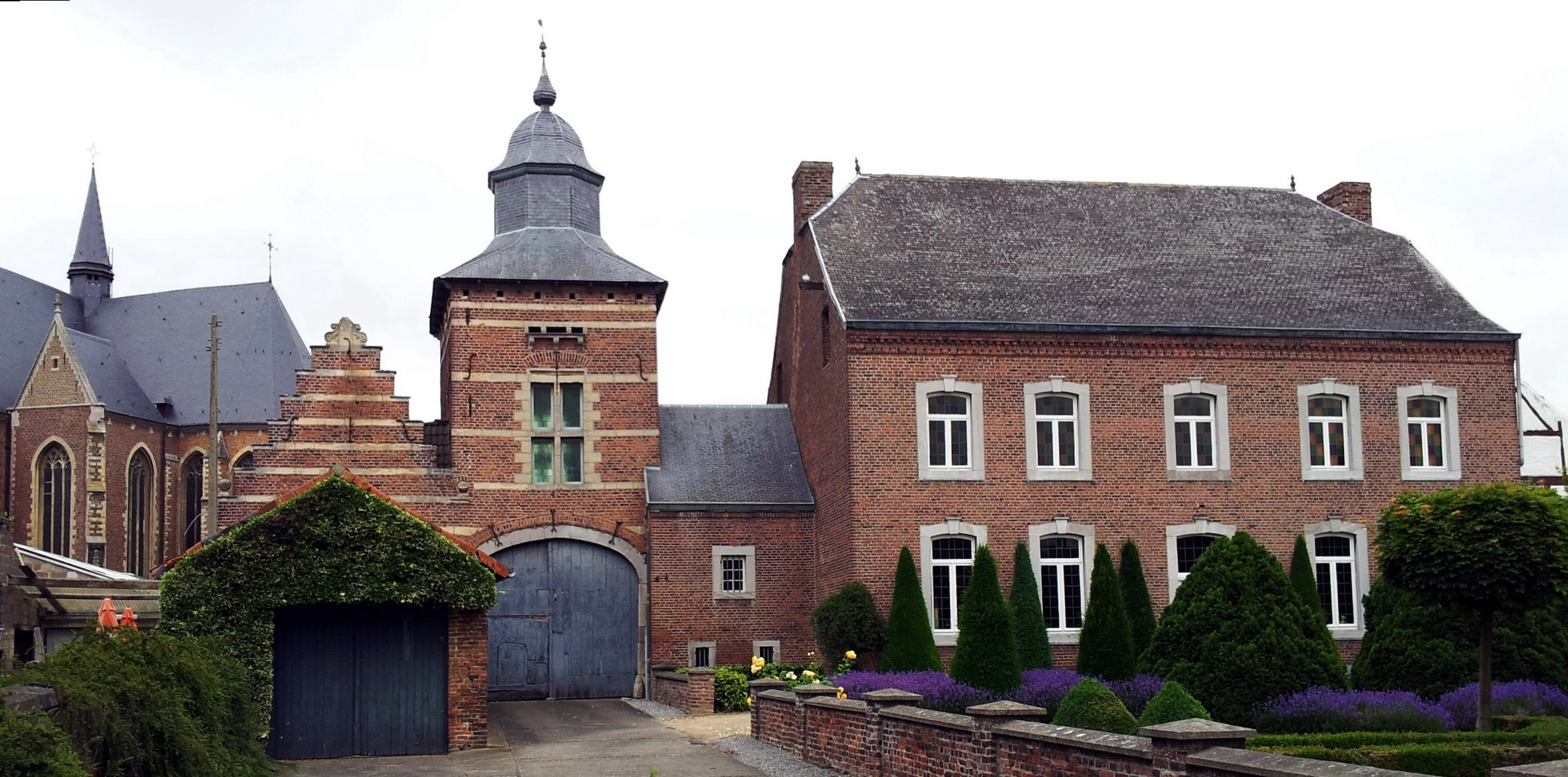 Zepperen, near Sint-Truiden, Belgium. View of Ouwerxhoeve (17th c).